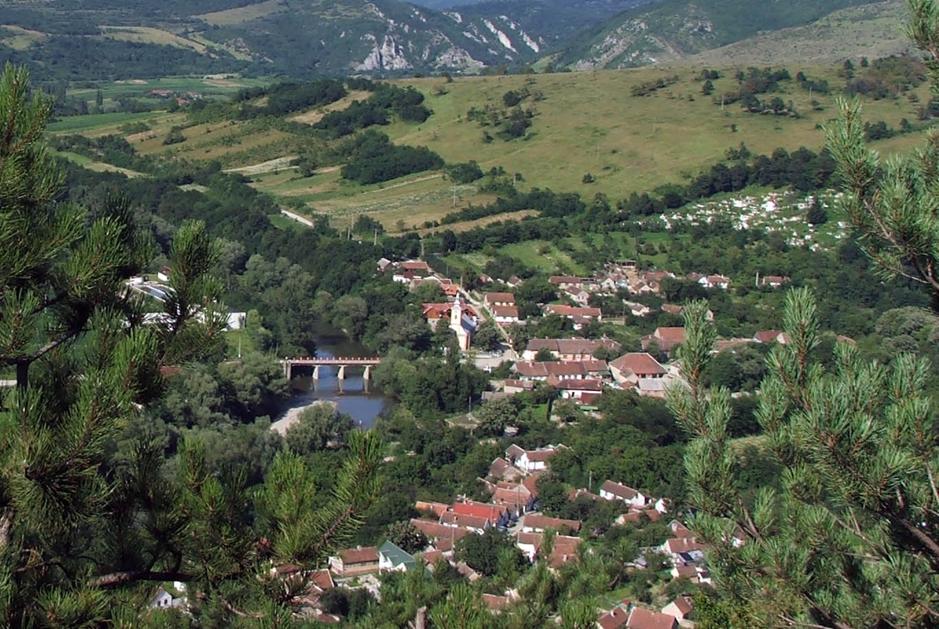 Sasca Montana